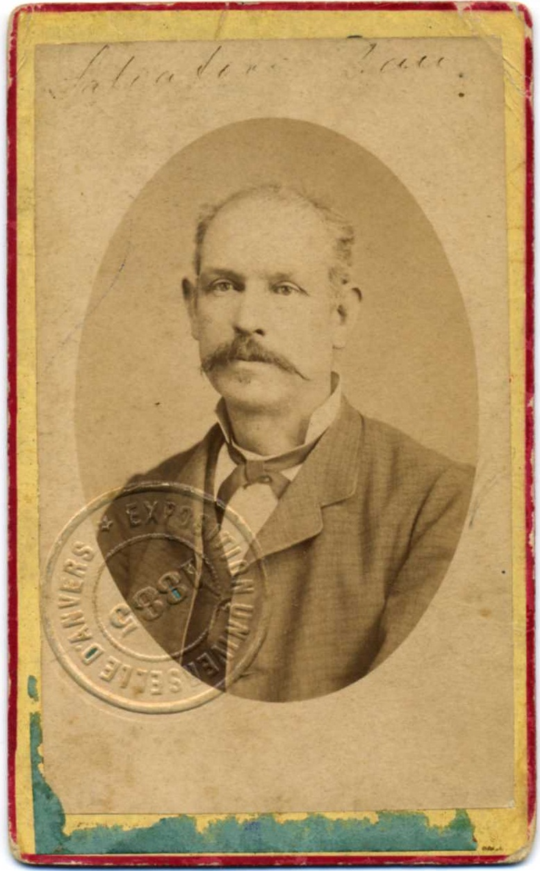 A photo of Salvatore Dau b. 1840 taken at the Exposition Universelle d'Anvers (1885) being an exhibitor at the show